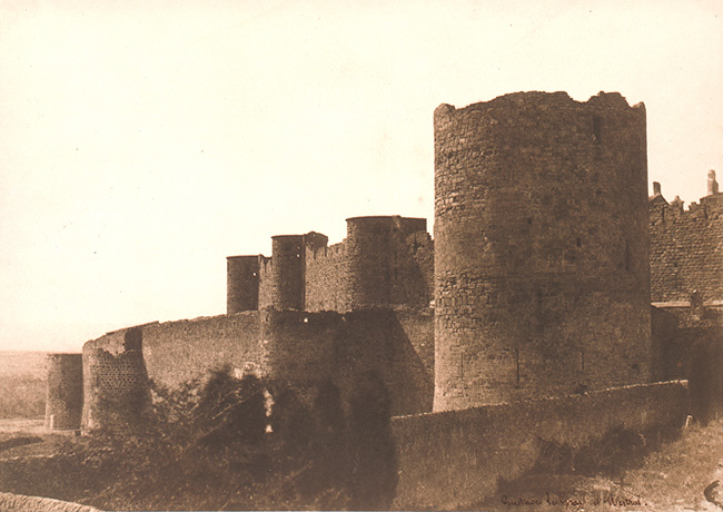 The Ramparts of Carcassonne. Photo made for Mission Héliographique. Salted paper print from paper negative. 9 1/4 x 13 1/16 in. (23.5 x 33.2). Metropolitan Museum, New York